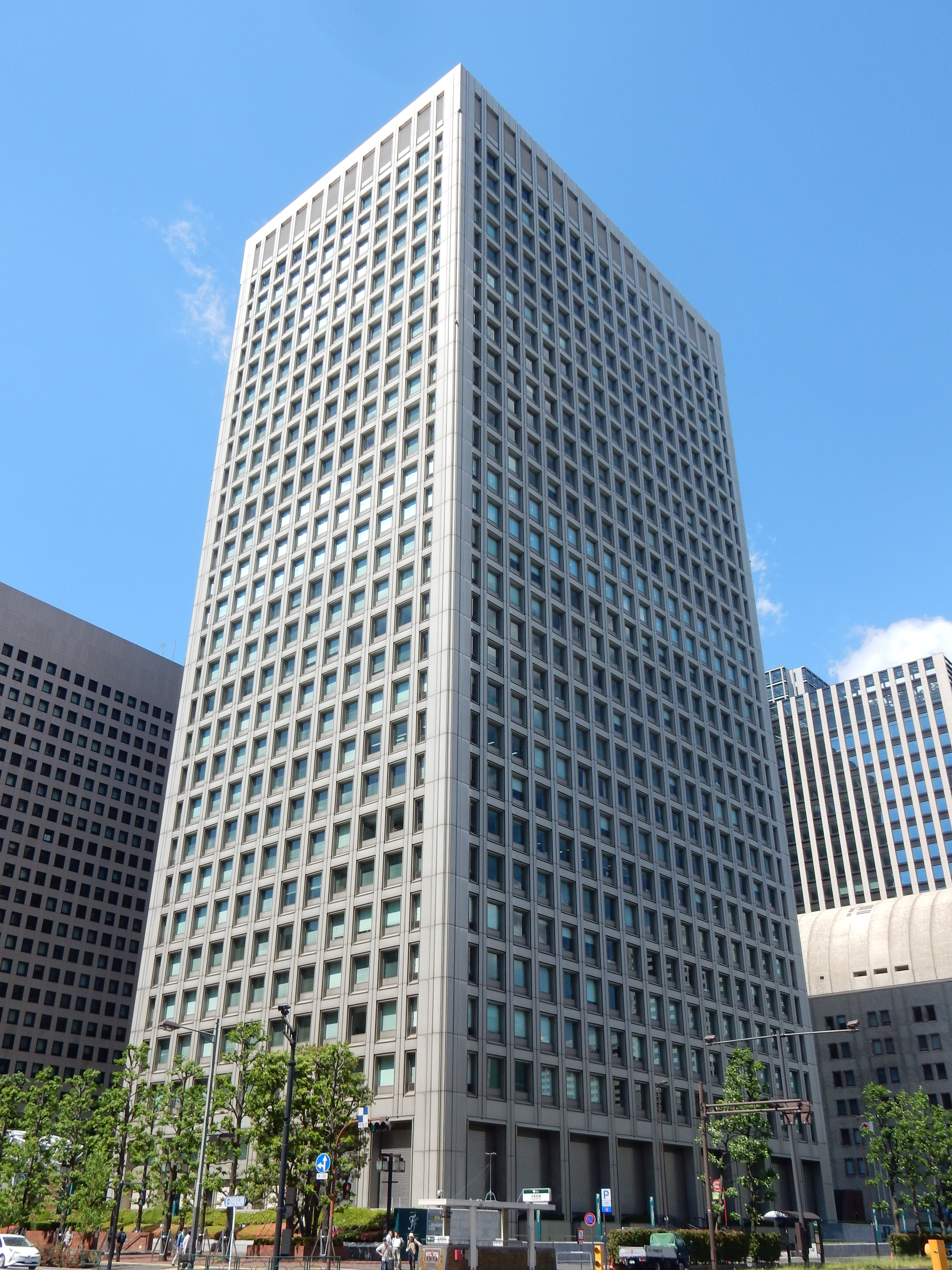 Fukoku Seimei Building (富国生命ビル), located at 2-2-3 Uchisaiwaicho, Chiyoda, Tokyo, Japan